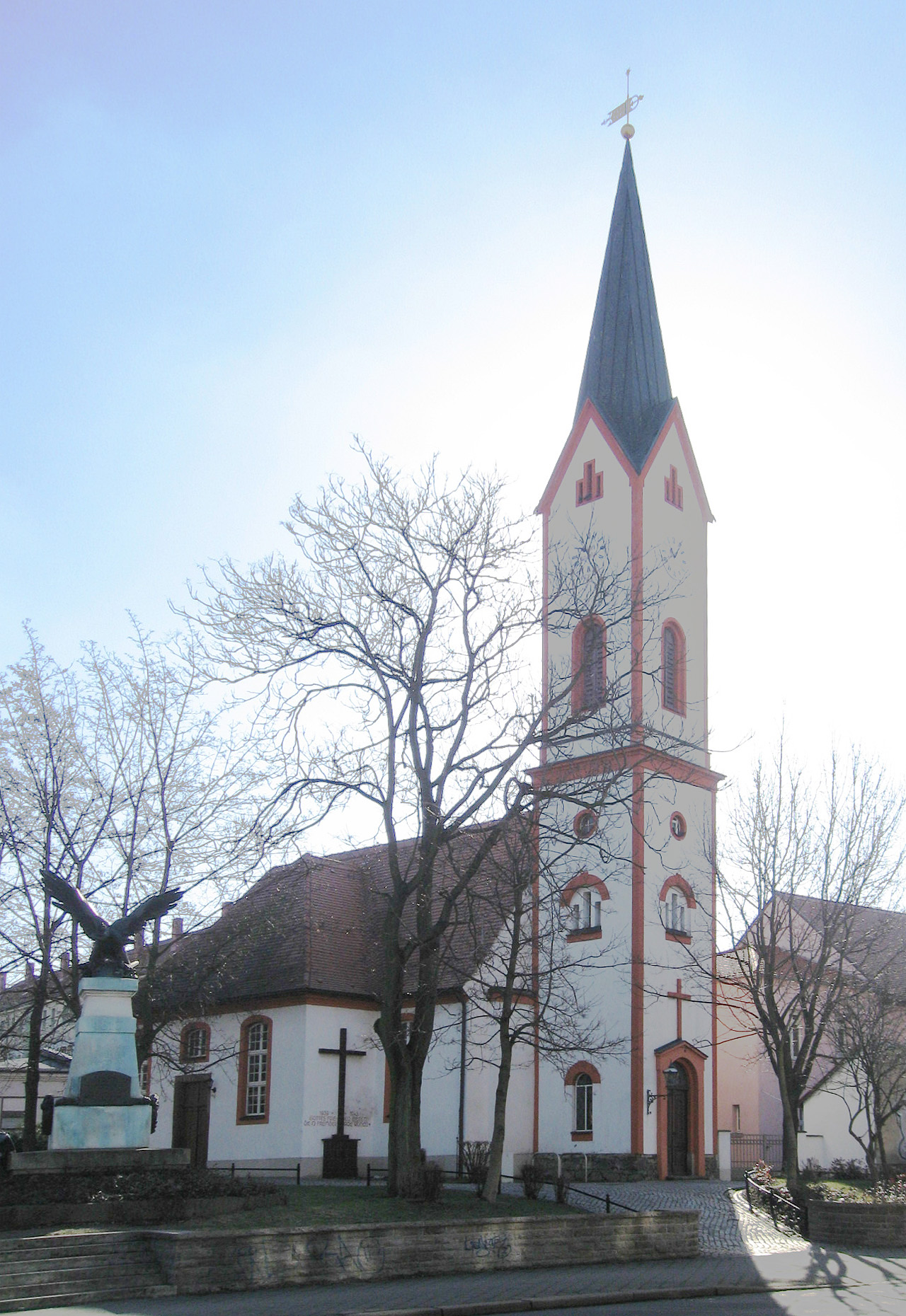 Galilee Church in Leipzig, Theodor-Heuss-Strasse 45